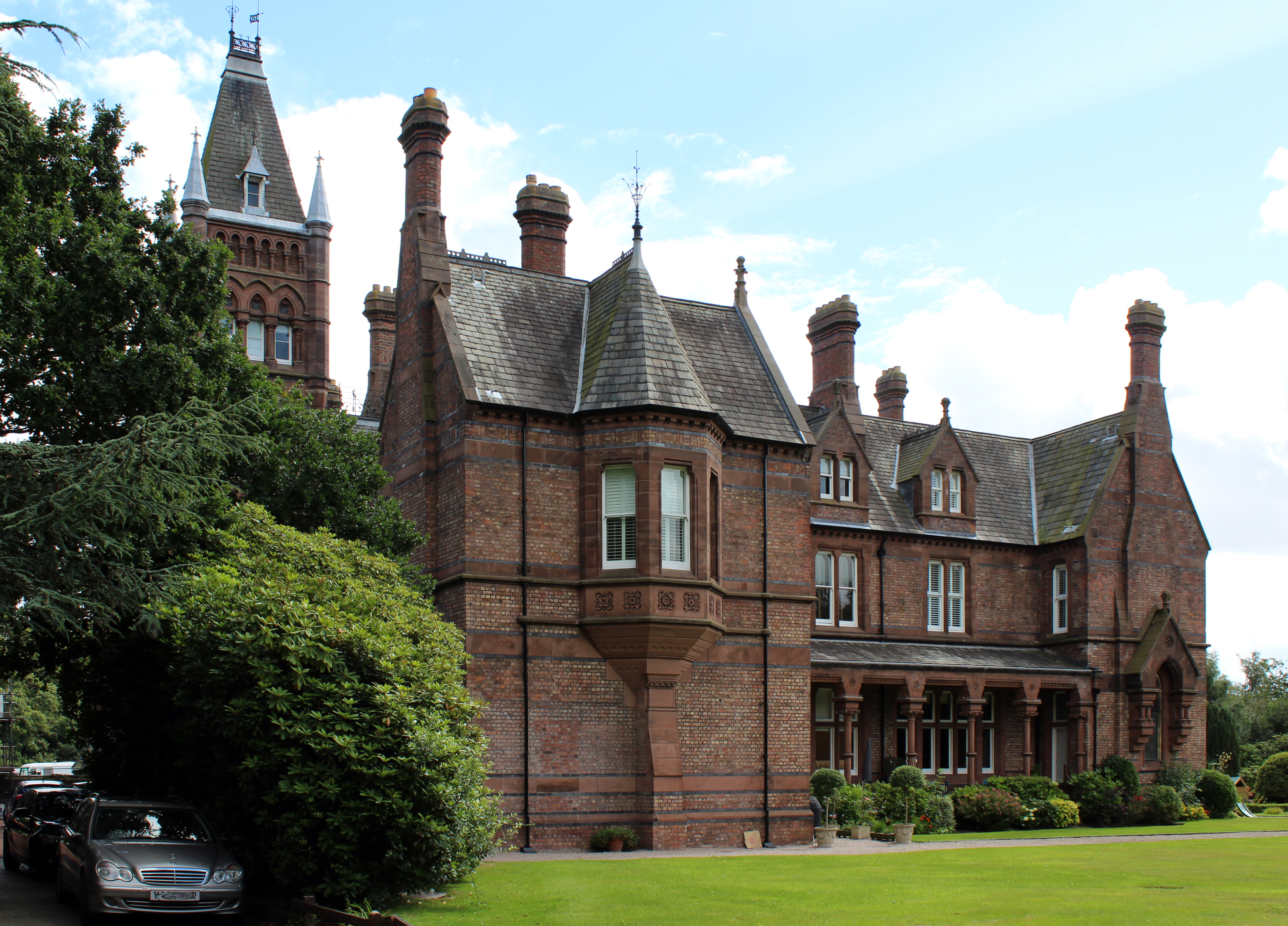 Right return seen across the lawn